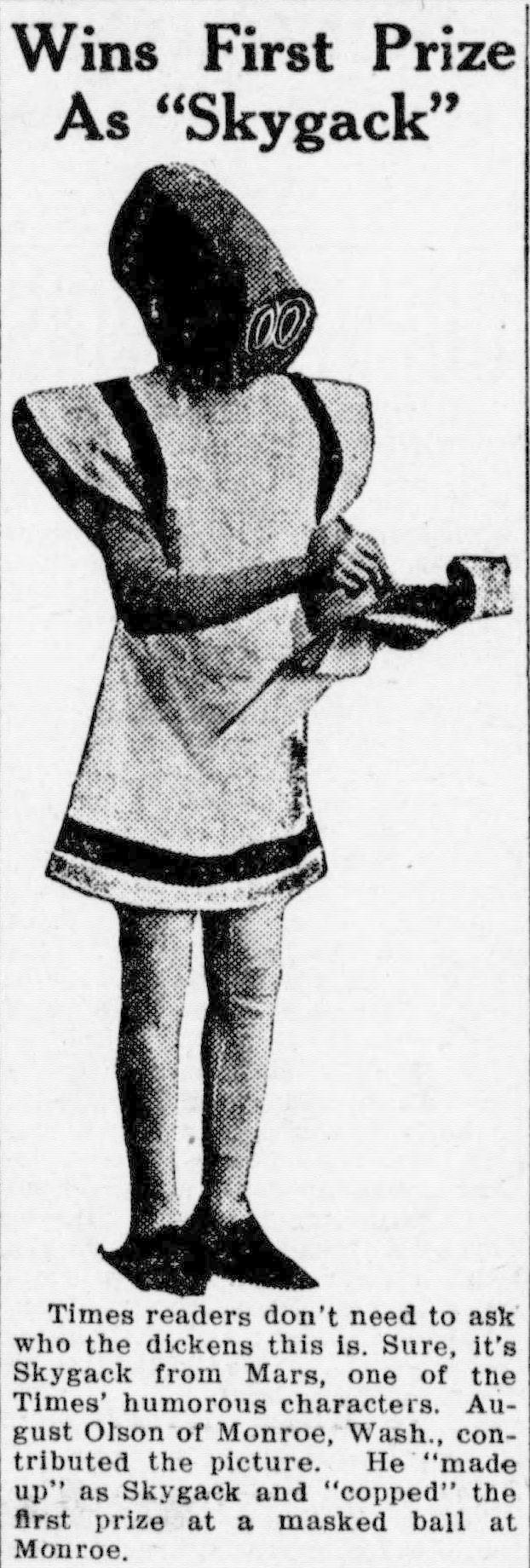 In 1912, August Olson of Monroe, Washington attended a masked ball as the A.D. Condo character "Mister Skygack, from Mars". He had a photo taken of himself in costume, and sent it to the Tacoma Times (one of the many newspapers where the "Mister Skygack, from Mars" comic strip appeared), where it was published on the front page on May 24 of that year.